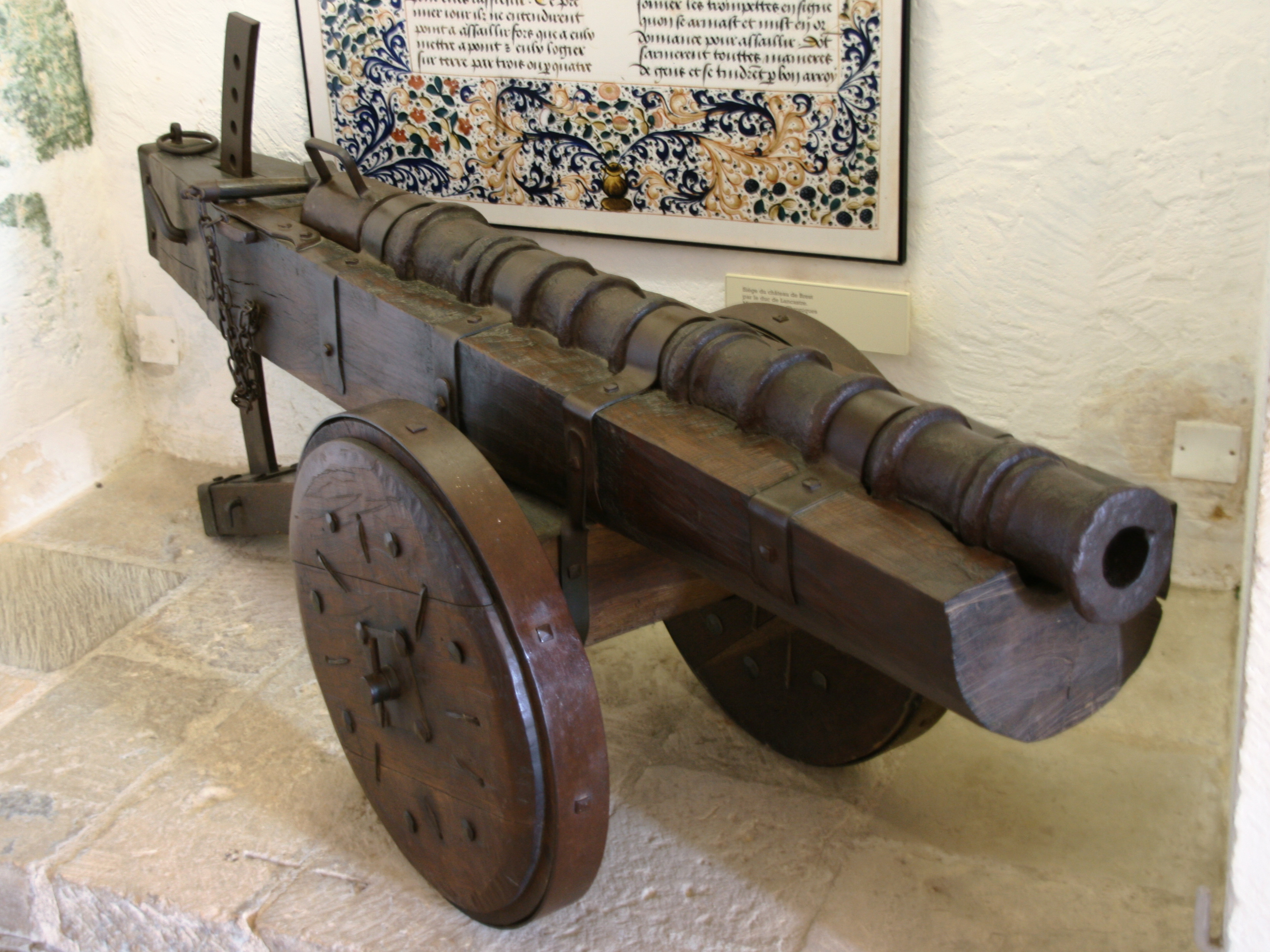 Veuglaire, 15th century. Made in cast iron, 1.15 m long, it fired stone and iron cannonballs at 200 meters range. Photo taken in the Château de Castelnaud, Castelnaud-la-Chapelle, Dordogne, Aquitaine, France.